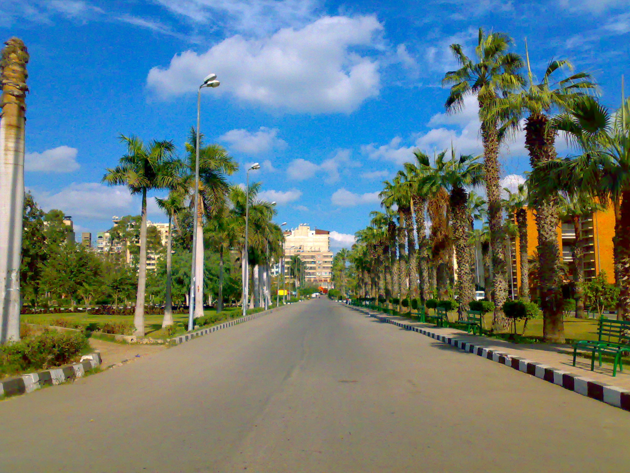 Mansoura University in Dec 2007.